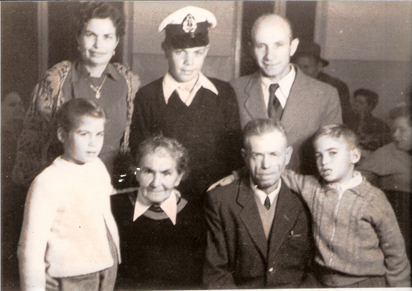 Rear Admiral Eli Rahav, INS, as cadette, with family. 1954